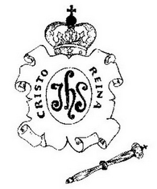 Emblem of the religious congregation of Daughters of Christ King (Hijas de Cristo Rey), from a booklet printed in 1906